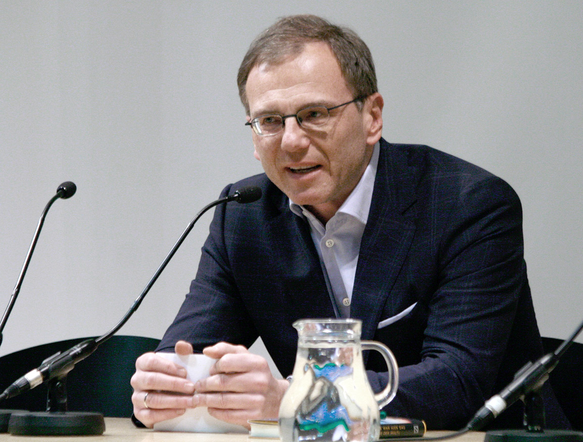 Armin Wolf at the presentation of Florian Klenks book „Früher war hier das Ende der Welt“ – Reportagen (Vienna).